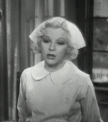 Cropped screenshot of Glenda Farrell from the film Mary Stevens, M.D.